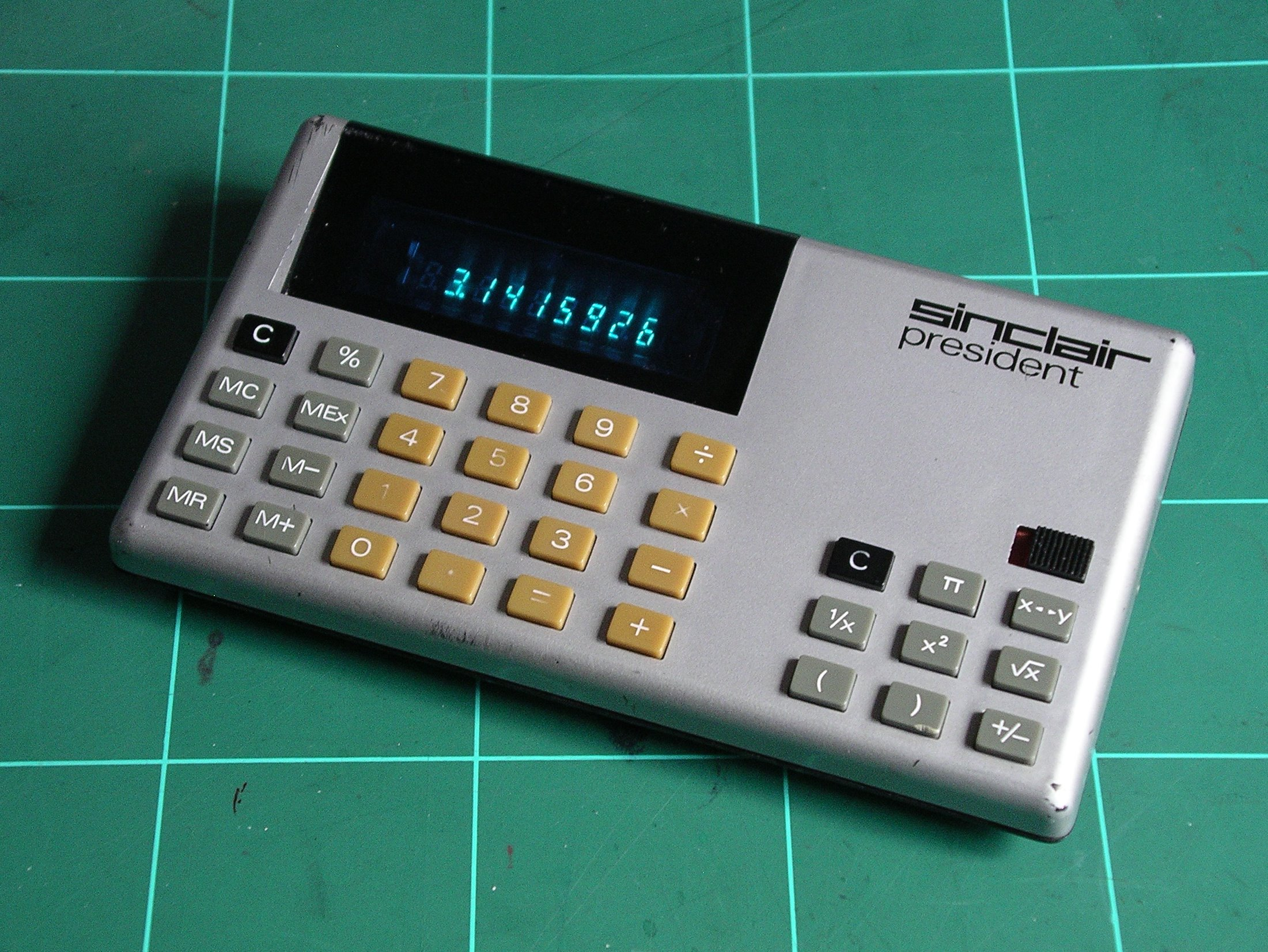 Photo of a Sinclair President calculator. It is on a grid of 5cm squares. The screen shows the display resulting from pressing the "pi" button.